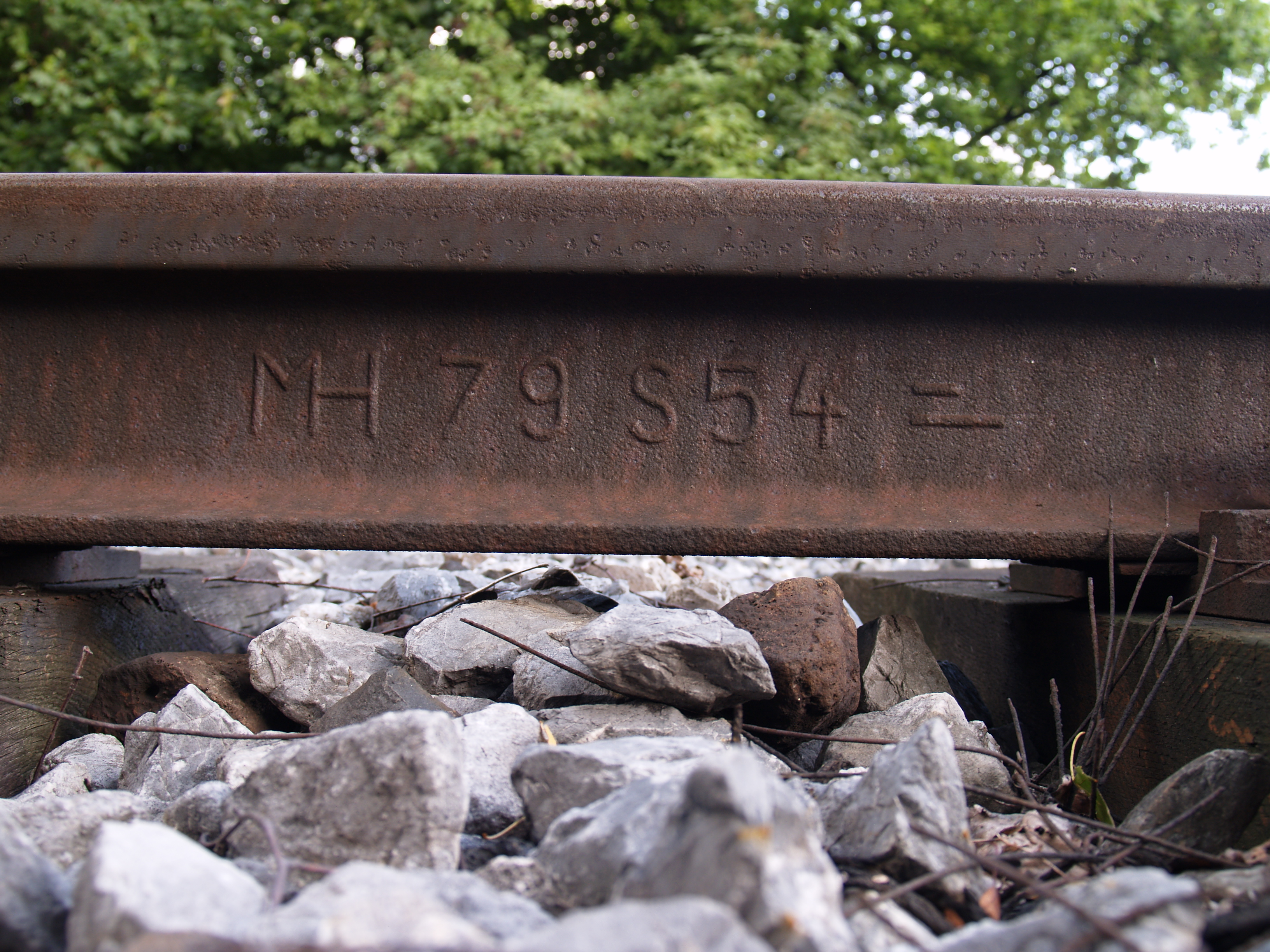 Rail, made by MH (Maxhütte) 1979